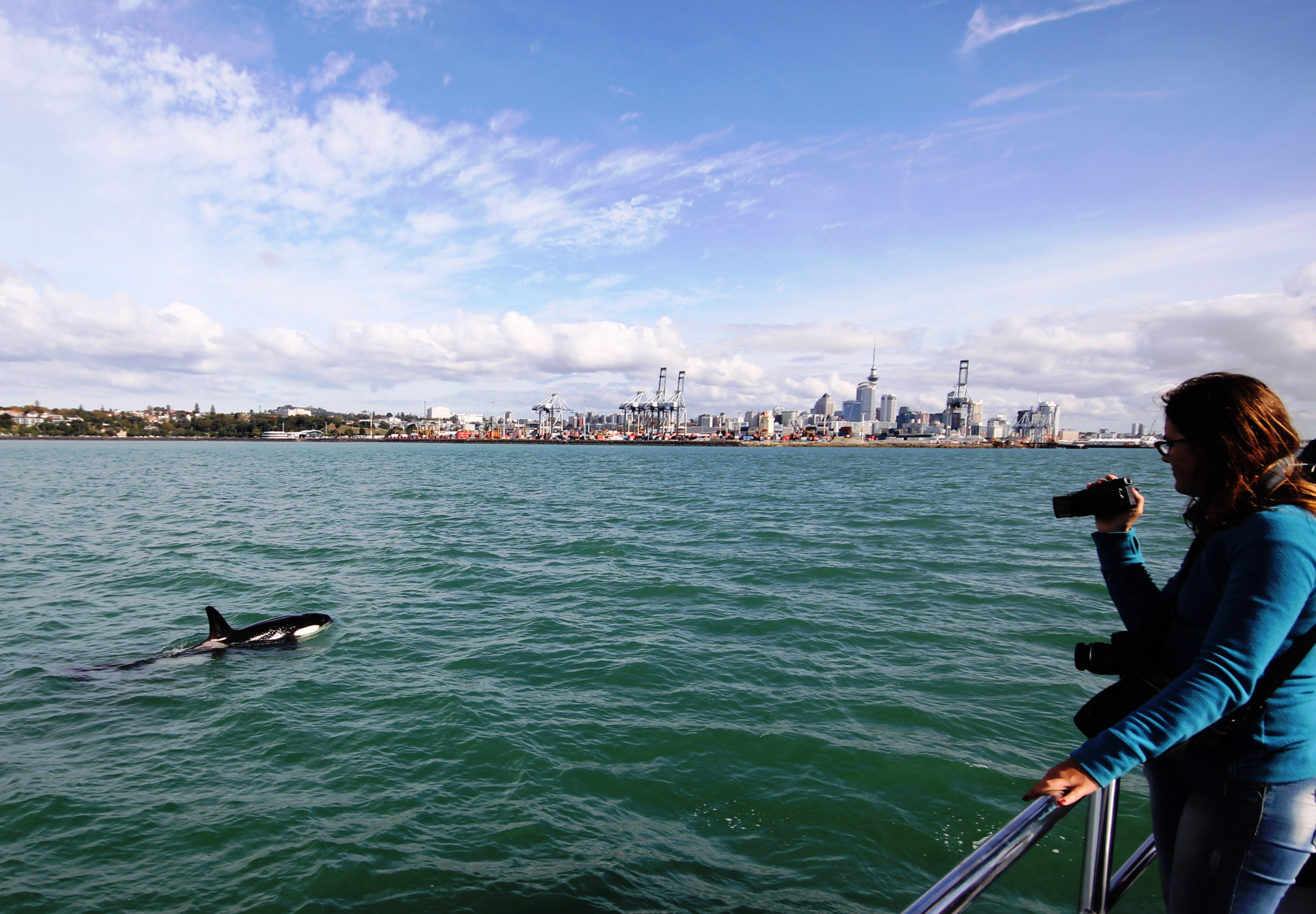 A passenger enjoys some up-close interaction with an Orca (Killer Whale) just outside Auckland city, New Zealand.